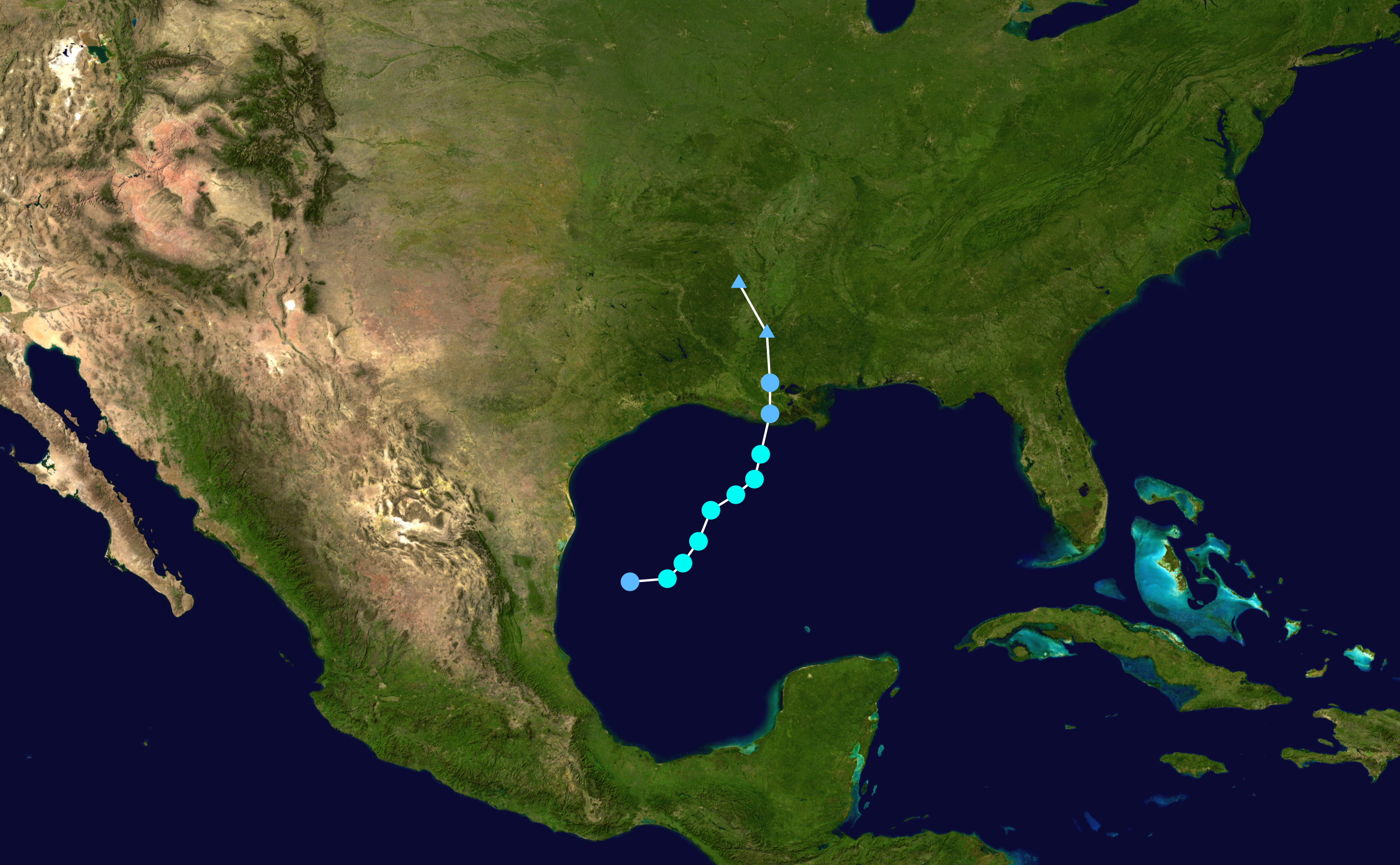 Track map of Tropical Storm Matthew of the 2004 Atlantic hurricane season. The points show the location of the storm at 6-hour intervals. The colour represents the storm's maximum sustained wind speeds as classified in the Saffir–Simpson scale (see below), and the shape of the data points represent the nature of the storm, according to the legend below. Saffir–Simpson scale Tropical depression≤38 mph≤62 km/h Category 3111–129 mph178–208 km/h Tropical storm39–73 mph63–118 km/h Category 4130–156 mph209–251 km/h Category 174–95 mph119–153 km/h Category 5≥157 mph≥252 km/h Category 296–110 mph154–177 km/h Unknown Storm type Tropical cyclone Subtropical cyclone Extratropical cyclone / Remnant low / Tropical disturbance / Monsoon depression